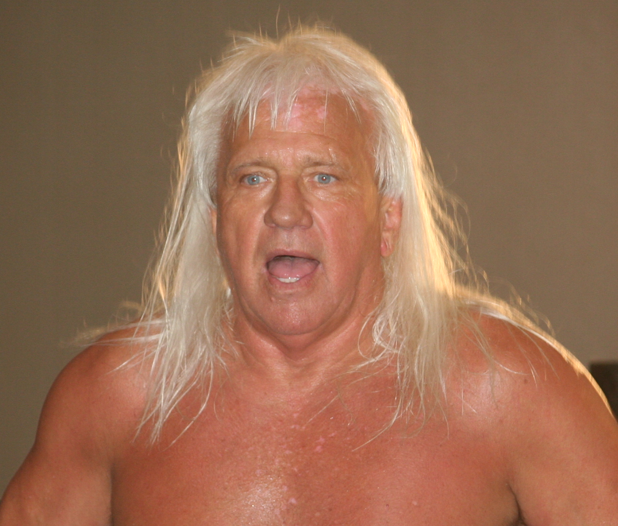 Depicted person: Ricky Morton – American professional wrestler